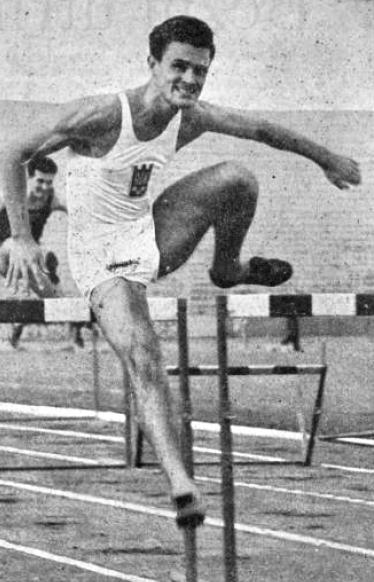 Stanko Lorger (1931-2014), Slovene athlete